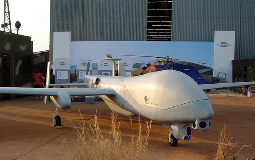 Mockup of Denel Aerospace Systems' Bateleur UAV, as unveiled at Africa Aerospace and Defence 2004, AFB Waterkloof.